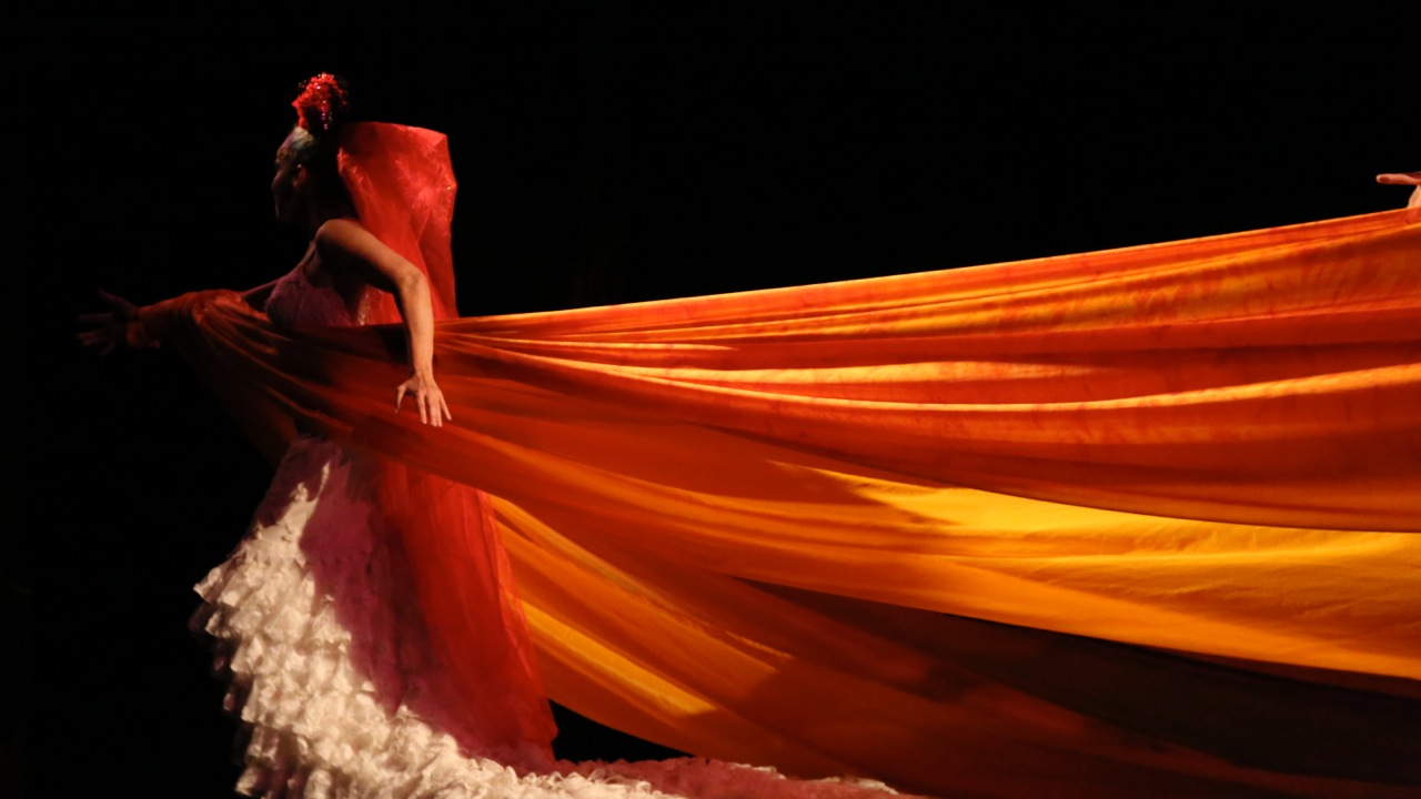 Production of El Beso de la Abeja